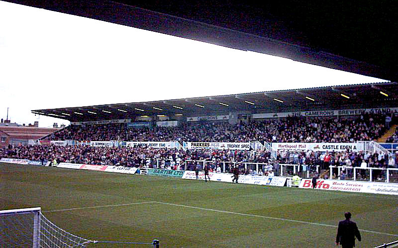 Taken by SuperBFC on 2004-03-27 with TCM 3.2 MPix Camera. Imaged enhanced in Irfanview.